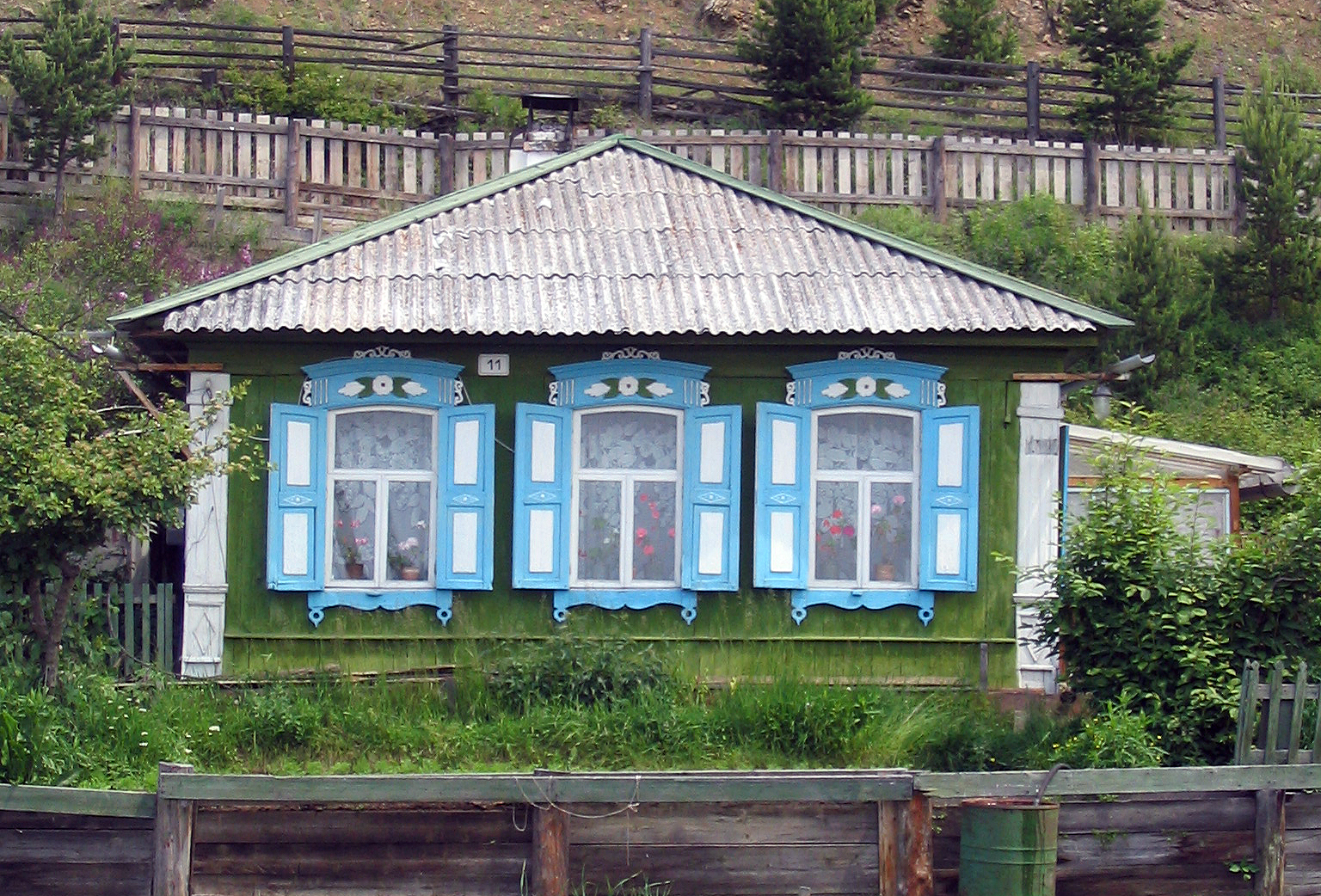 Wooden house typical of the architecture found in and around Listvyanka, Russia